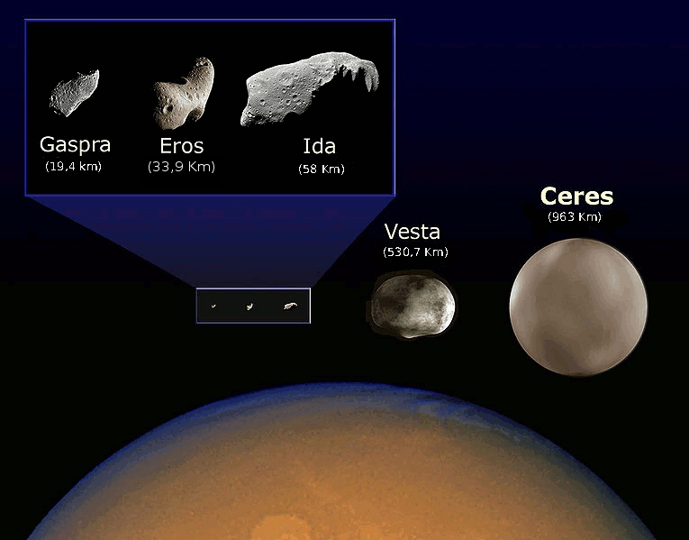 Comparison of the sizes of asteroids (1) Ceres, (4) Vesta, (243) Ida, (433) Eros, and (951) Gaspra, also Mars.